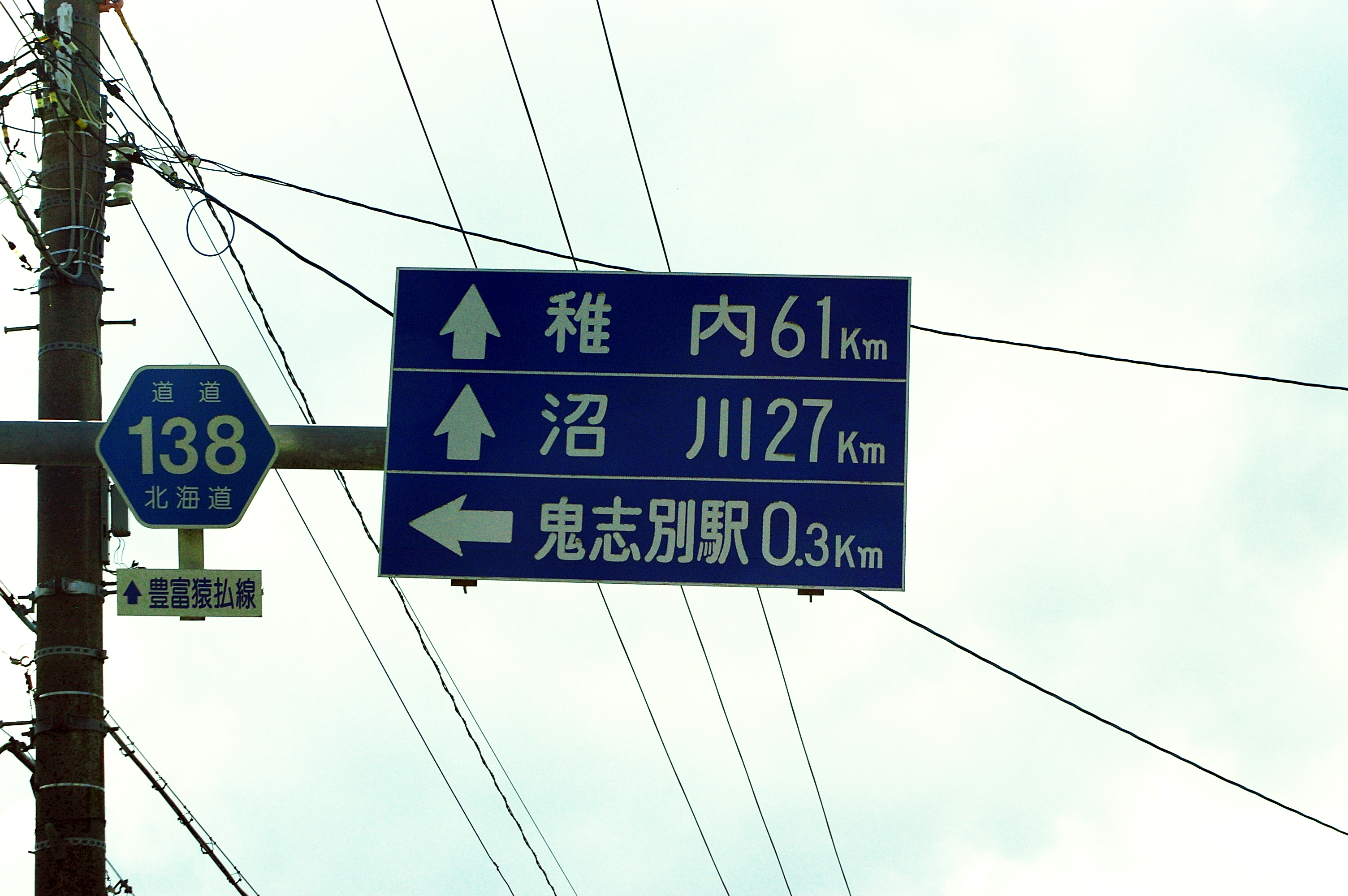 Guide signboard of Onicocorozabetseki that remains in the Onicocorozabets town.